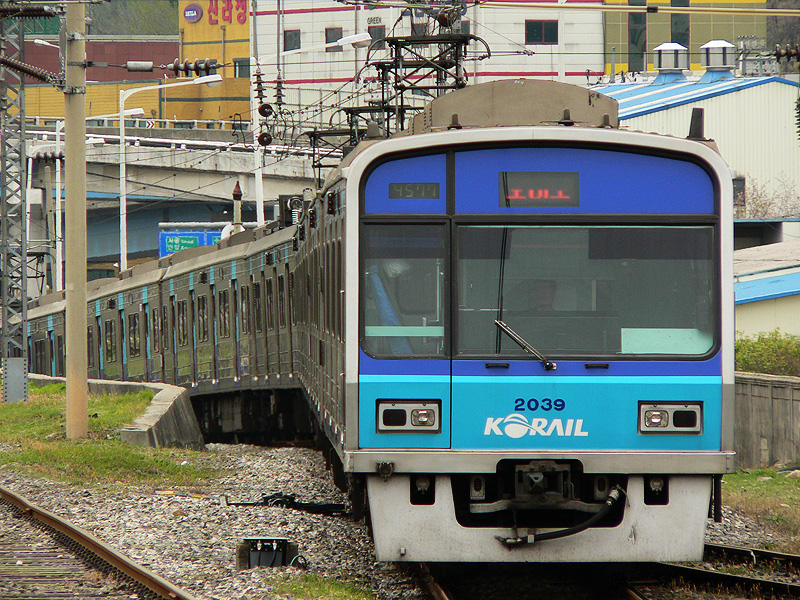 KORAIL 2000 series EMU